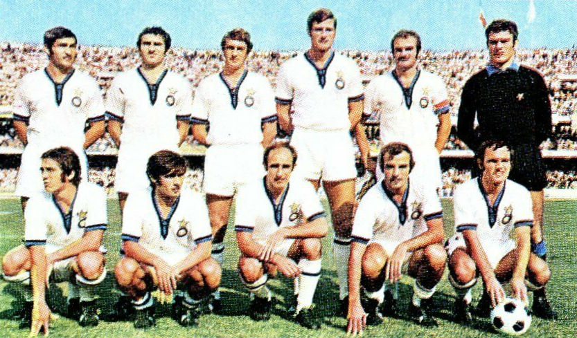 Verona (Italy), Marcantonio Bentegodi Stadium, September 27, 1970. The line-up of F.C. Internazionale Milano took to the pitch in the away victory versus A.C. Hellas Verona (1-2), Matchday 1 of Italian League 1970–71 Serie A.